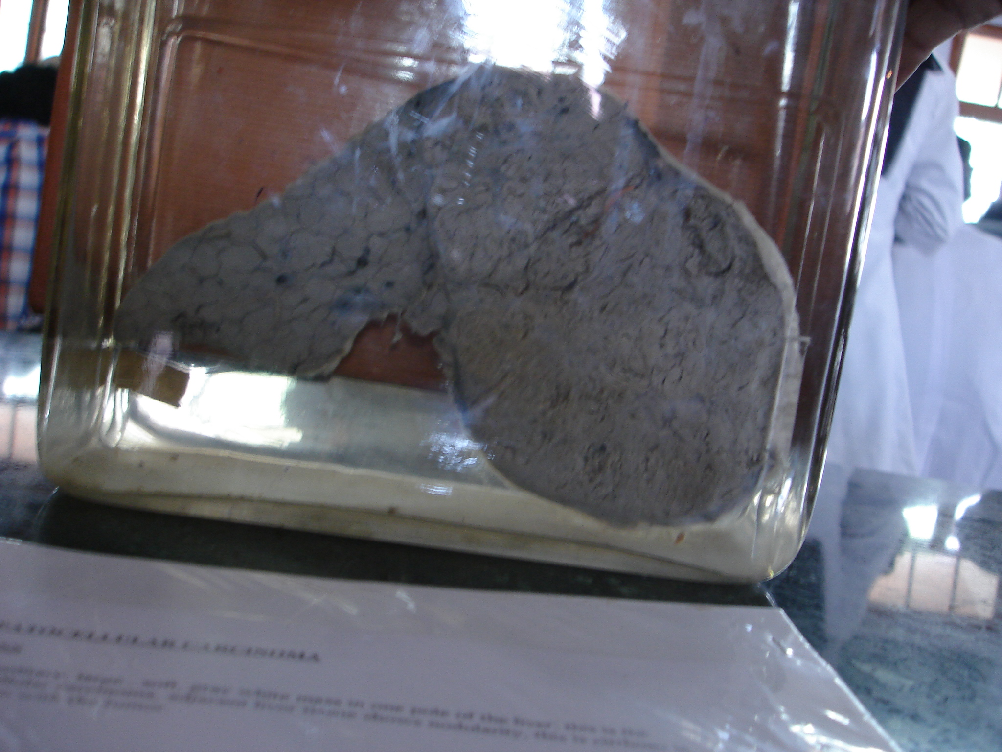 Gross specimen of the liver showing hepatocellular carcinoma